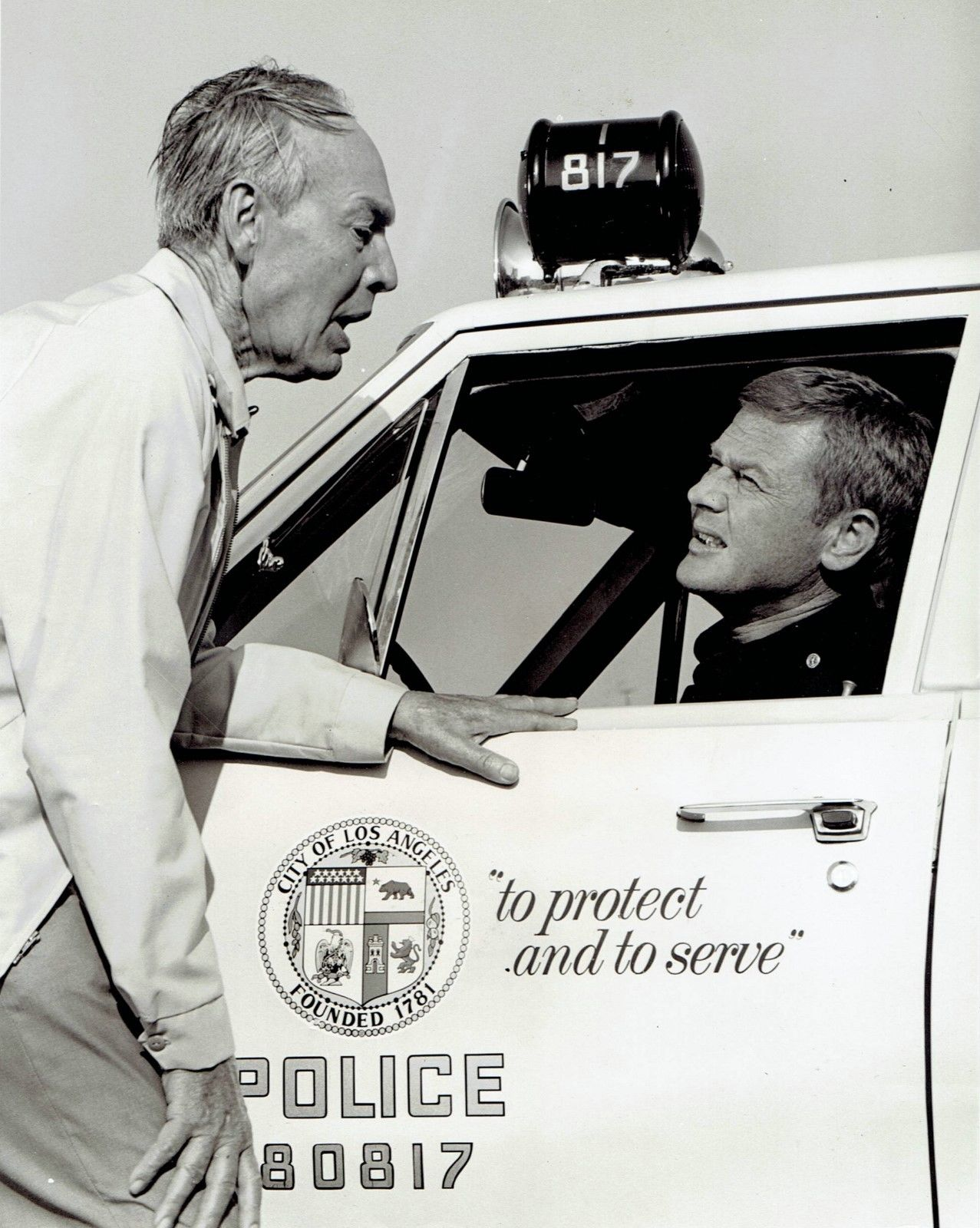 Byron Foulger & Martin Milner in the TV series Adam-12, episode Log 161: Au You Want Me to Get Married? - publicity still